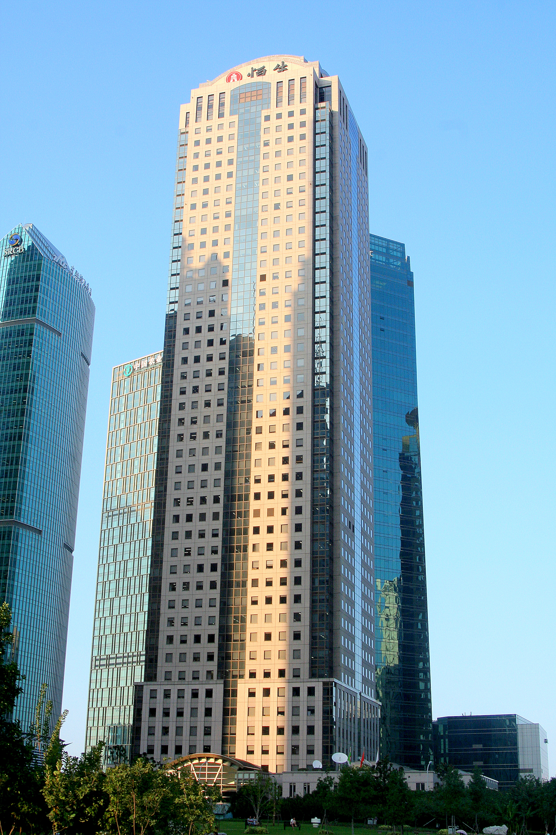 This is the Sen Mao International Building, located in downtown Shanghai.